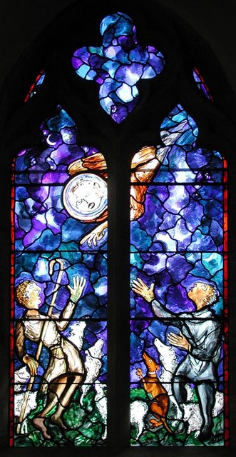 St Mary, Lamberhurst, Kent - Window Stained glass by John Piper